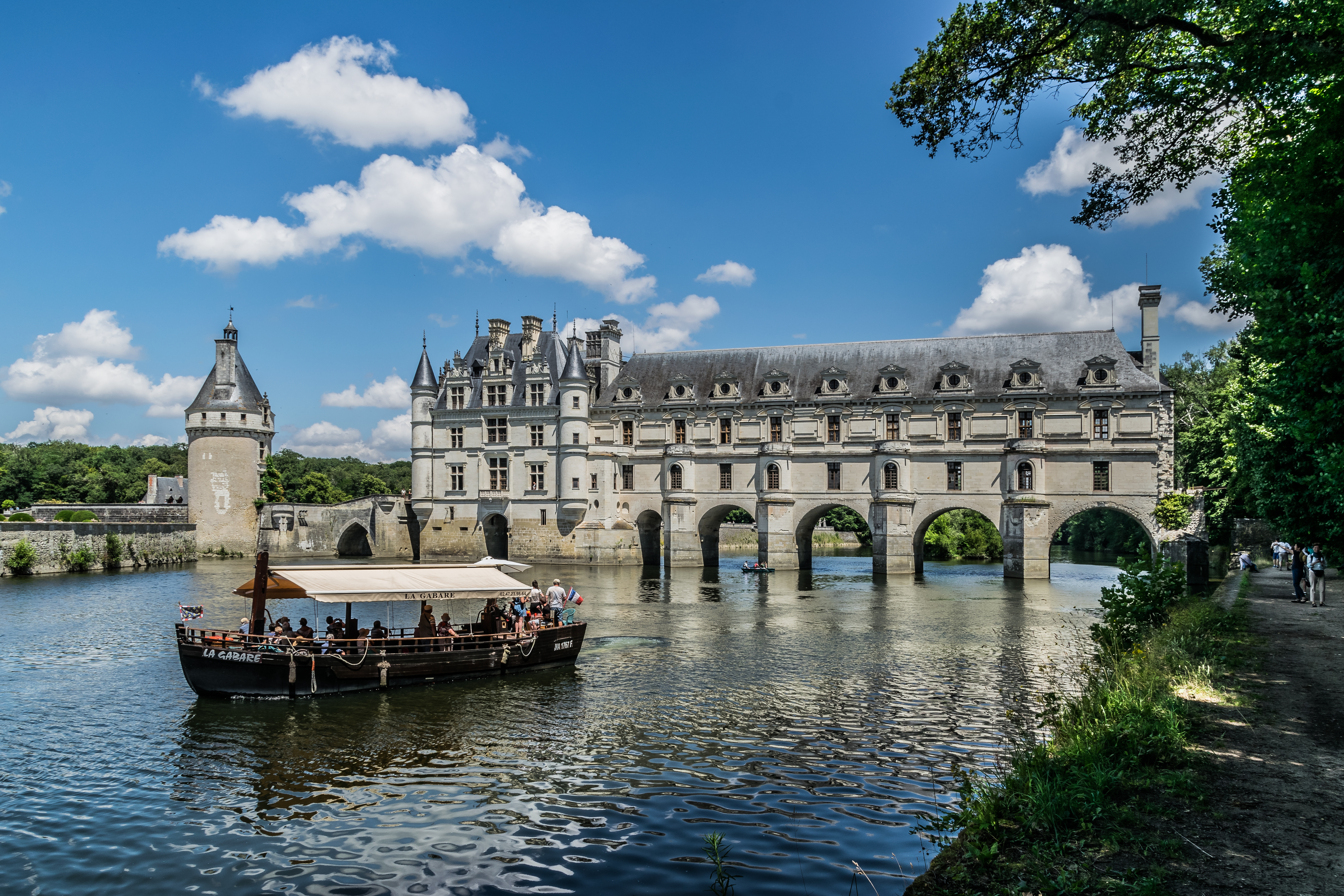 Castle of Chenonceau, Indre-et-Loire, France .